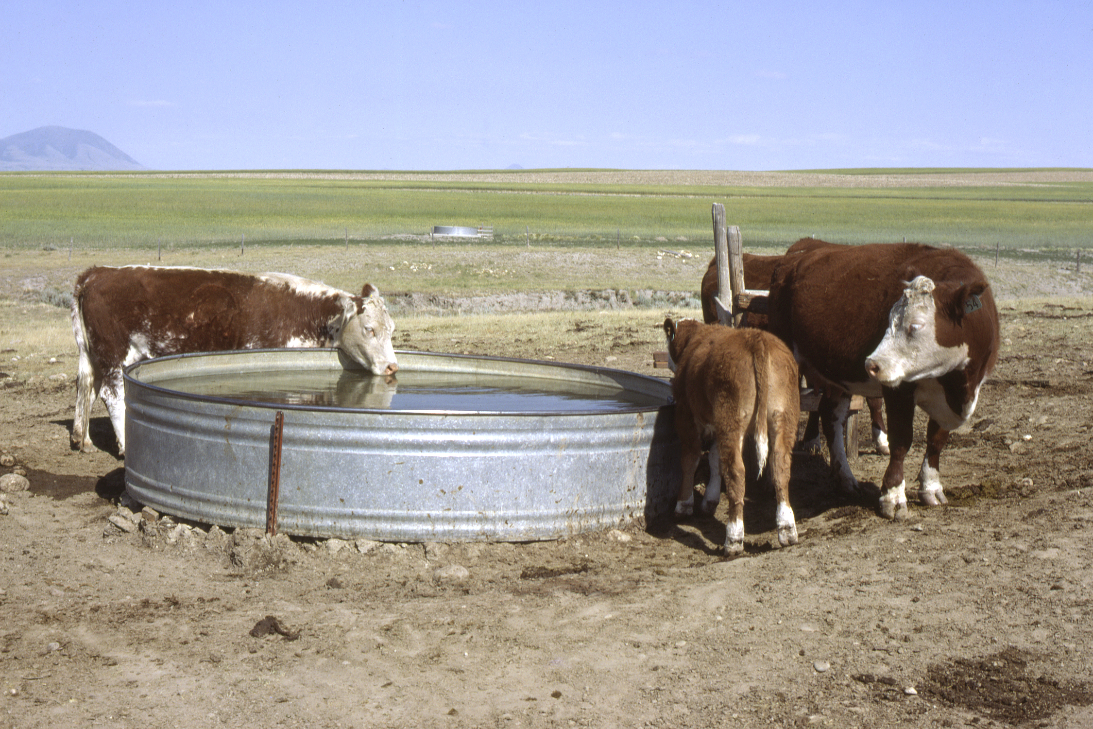 Cows at stock tank with piped water, Shelby, July 1980. This image or file is a work of a United States Department of Agriculture employee, taken or made as part of that person's official duties. As a work of the U.S. federal government, the image is in the public domain.